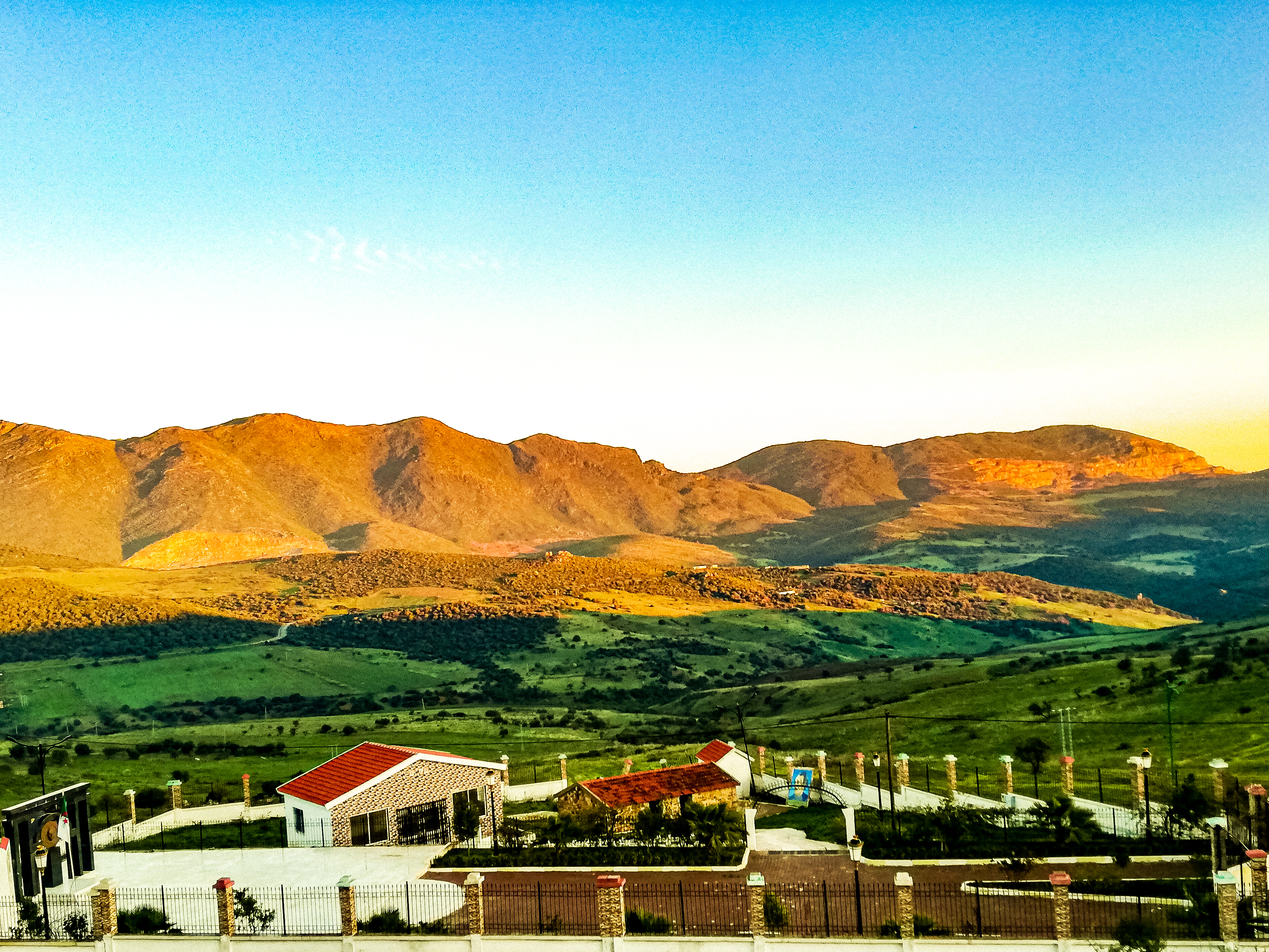 This is The house where the late Algerian President Houari Boumediene was born in douar Beni Aadi in Guelma province after been renewed